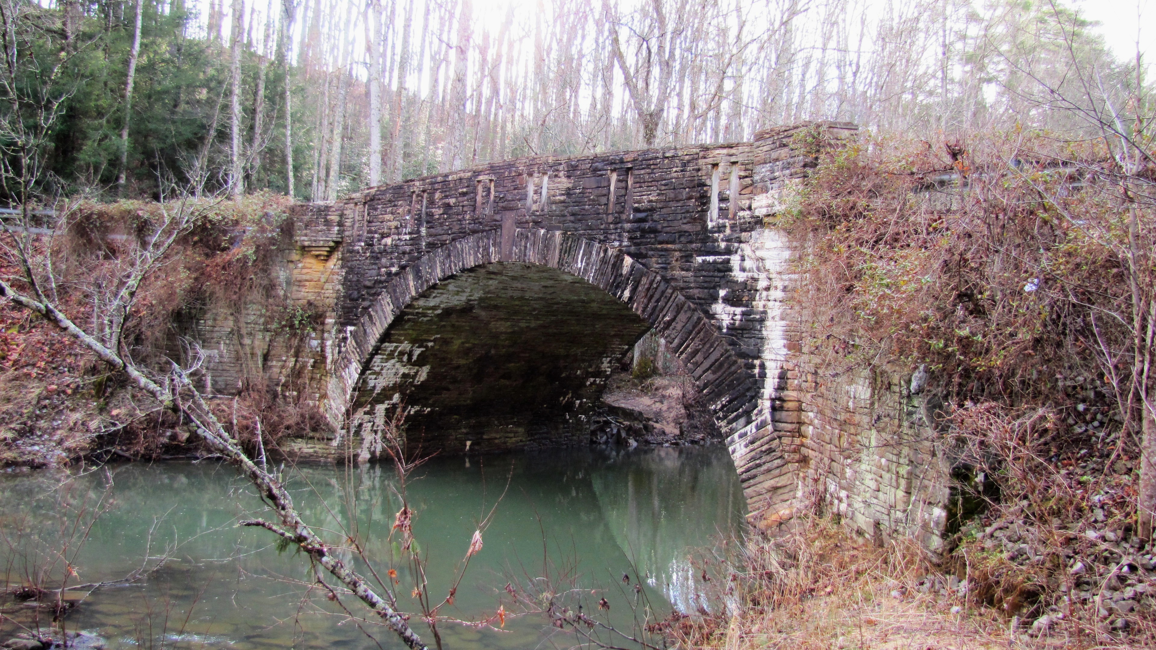 Deep Draw Road arch bridge over Byrd Creek, in the Cumberland Homesteads community of Crossville, Tennessee, USA. The bridge is a contributing structure in the NRHP-listed Cumberland Homesteads Historic District.